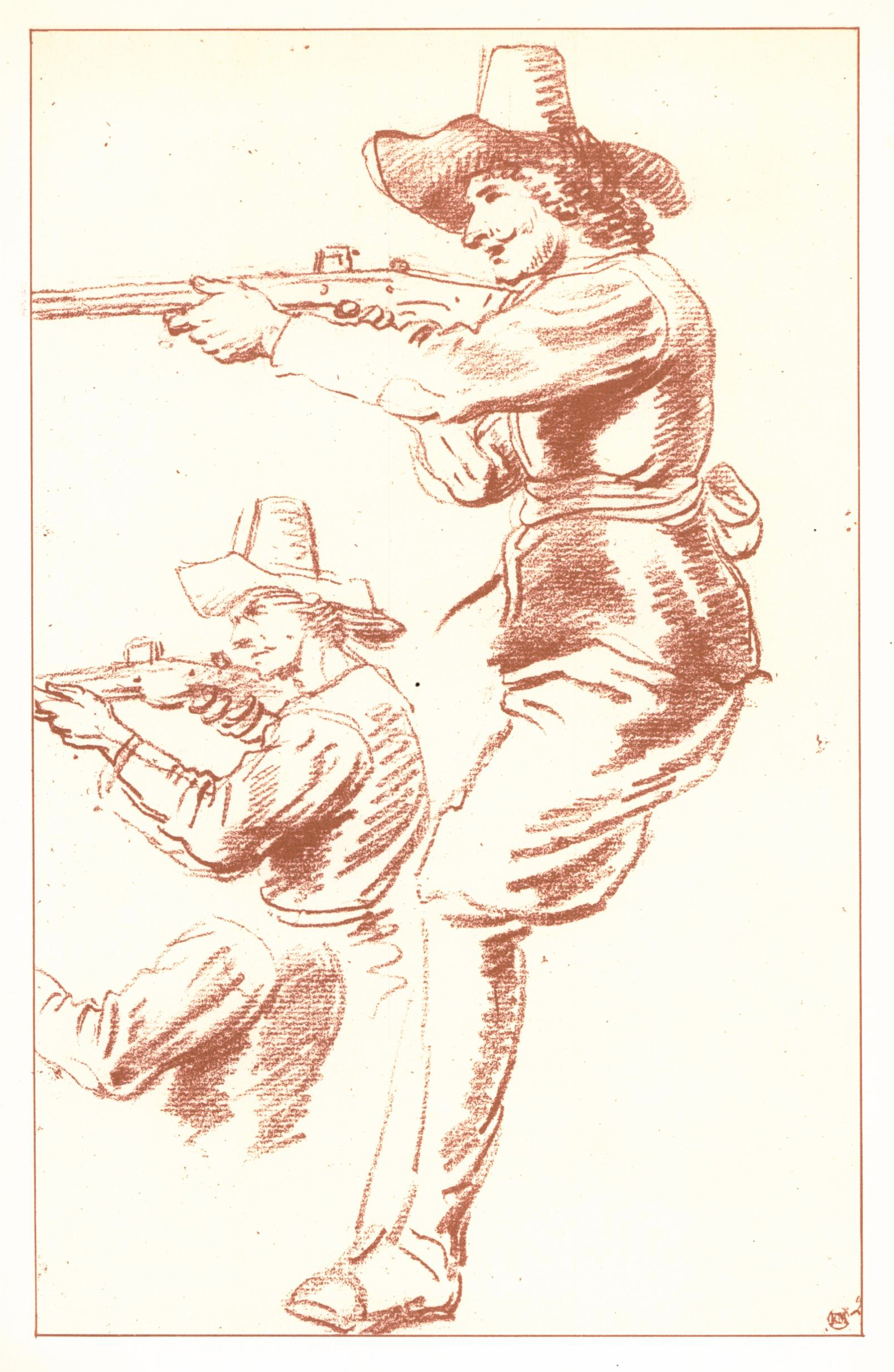 Swedish soldiers firing muskets. 17th Century.